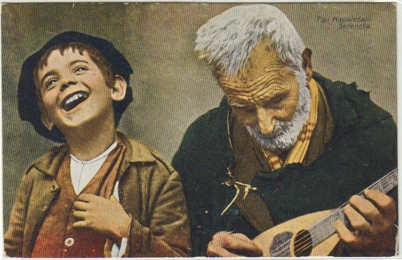 Naples, Boy and old man playing serenade